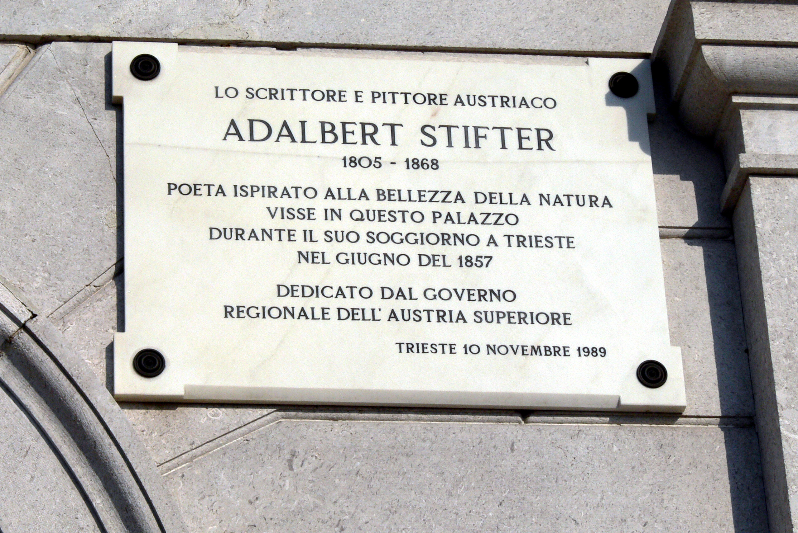 Trieste ( Italy ). Memorial plaque to the Austrian writer Adalbert Stifter.